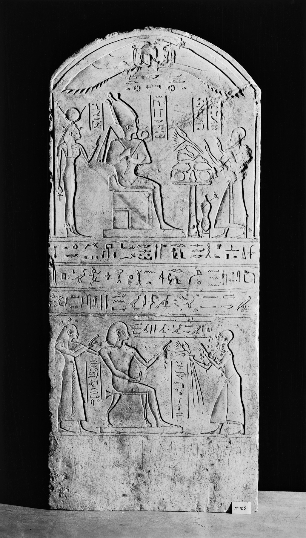 Meri-neith Wah-ib-Re is represented twice on this round-topped funerary monument commemorating him and his parents. Beneath a winged sun disk, the official is shown worshipping the lord of the underworld, Osiris, and his wife, Isis. In front of Meri-neith's upraised hands is a table heaped with food and floral offerings. At the bottom, he makes a floral offering to his father, Psamtik, and mother, Amenirdis. The arrangement of this couple almost mirrors that of the divine couple above them. Between the two scenes are three lines of hieroglyphic text that record a request for funerary offerings on behalf of the three individuals.